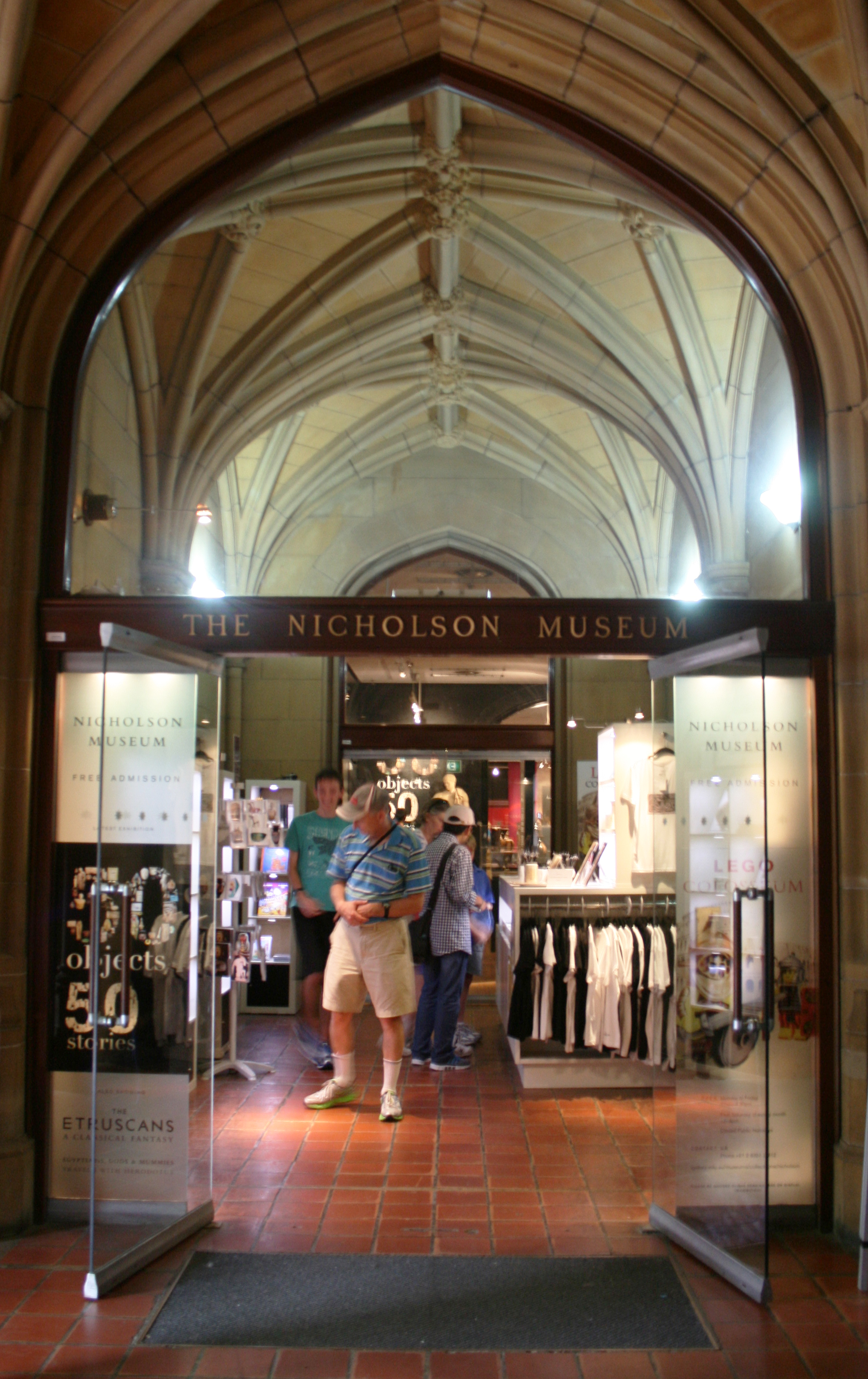 Entrance to the Nicholson Museum in the University of Sydney's historic quadrangle